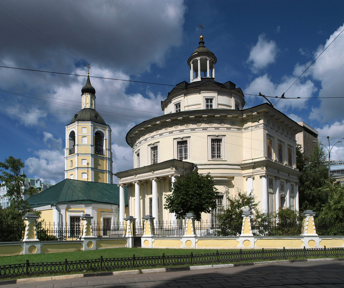 Church of St. Philipp the Metropolitan of Moscow in the former Meshchanskaya sloboda (Moscow, 1777-1788)